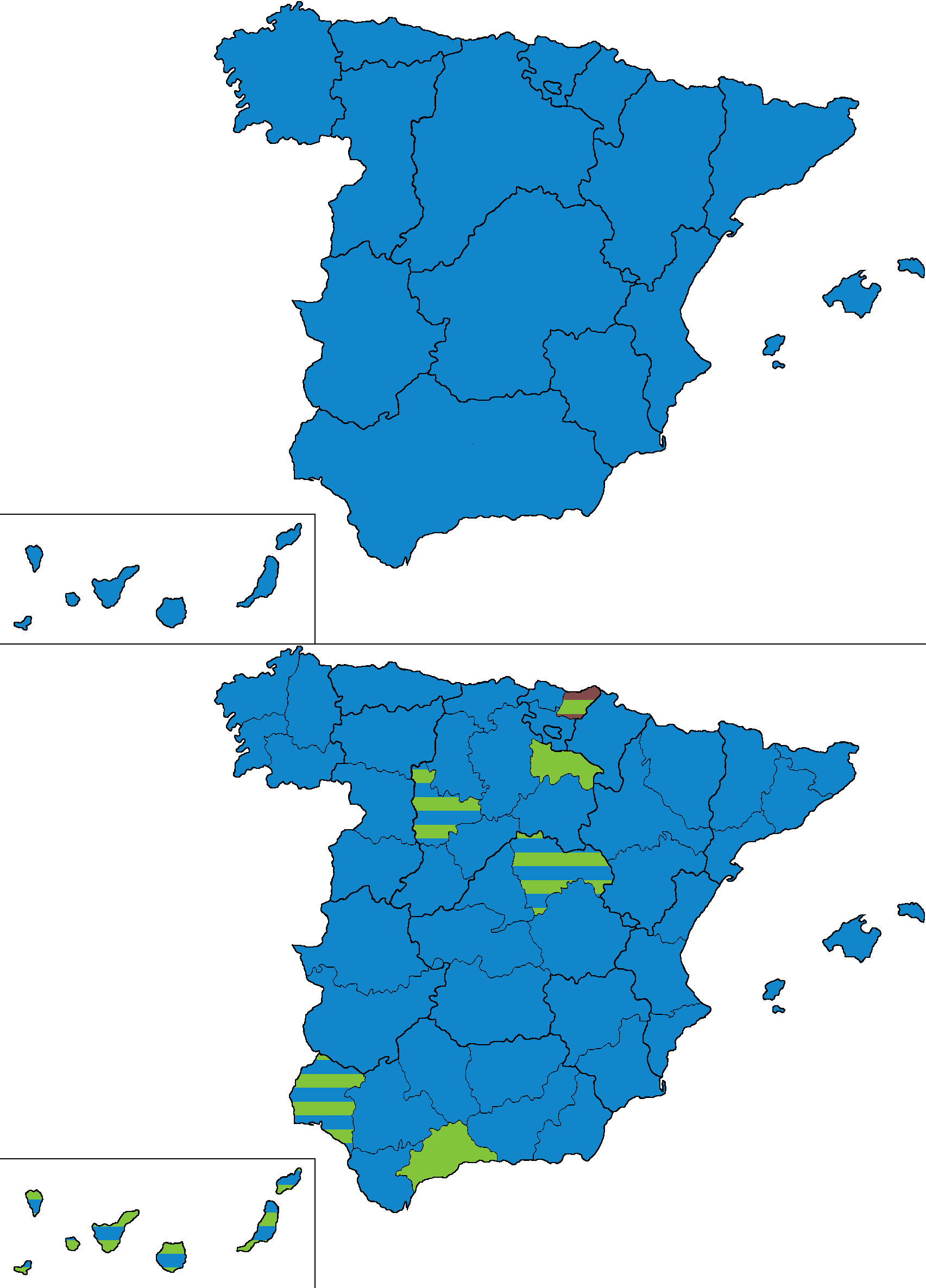 Most voted party in the 1891 Spanish Congress of Deputies election by regions and provinces.